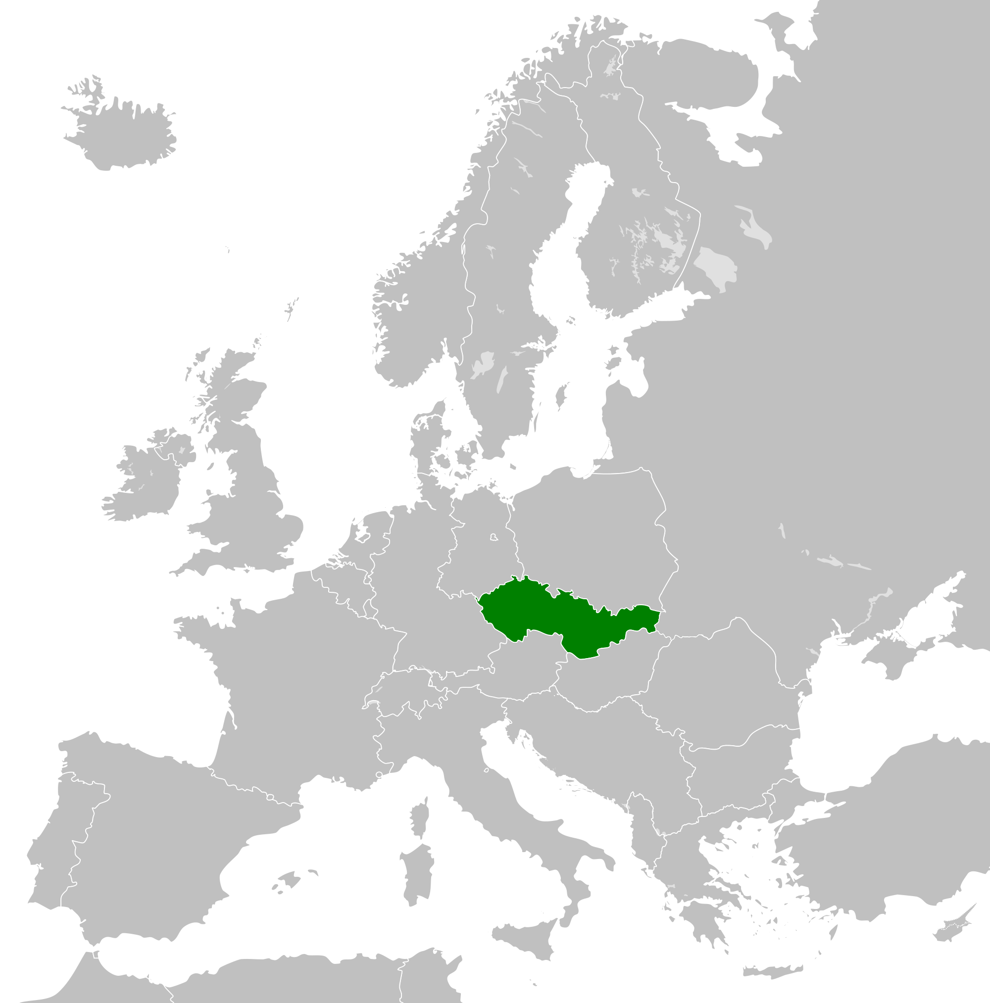 Czechoslovak Republic (Third Czechoslovak Republic) from 1945 to 1948, without Carpathian Ruthenia which was ceded to the Soviet Union in 1946.